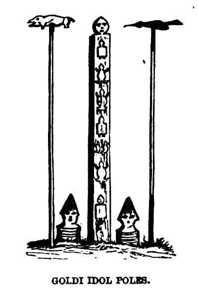 "Goldi Idol Poles" (i.e., totem poles of the Nanai people of the middle and lower Amur), ca. 1854-1860)